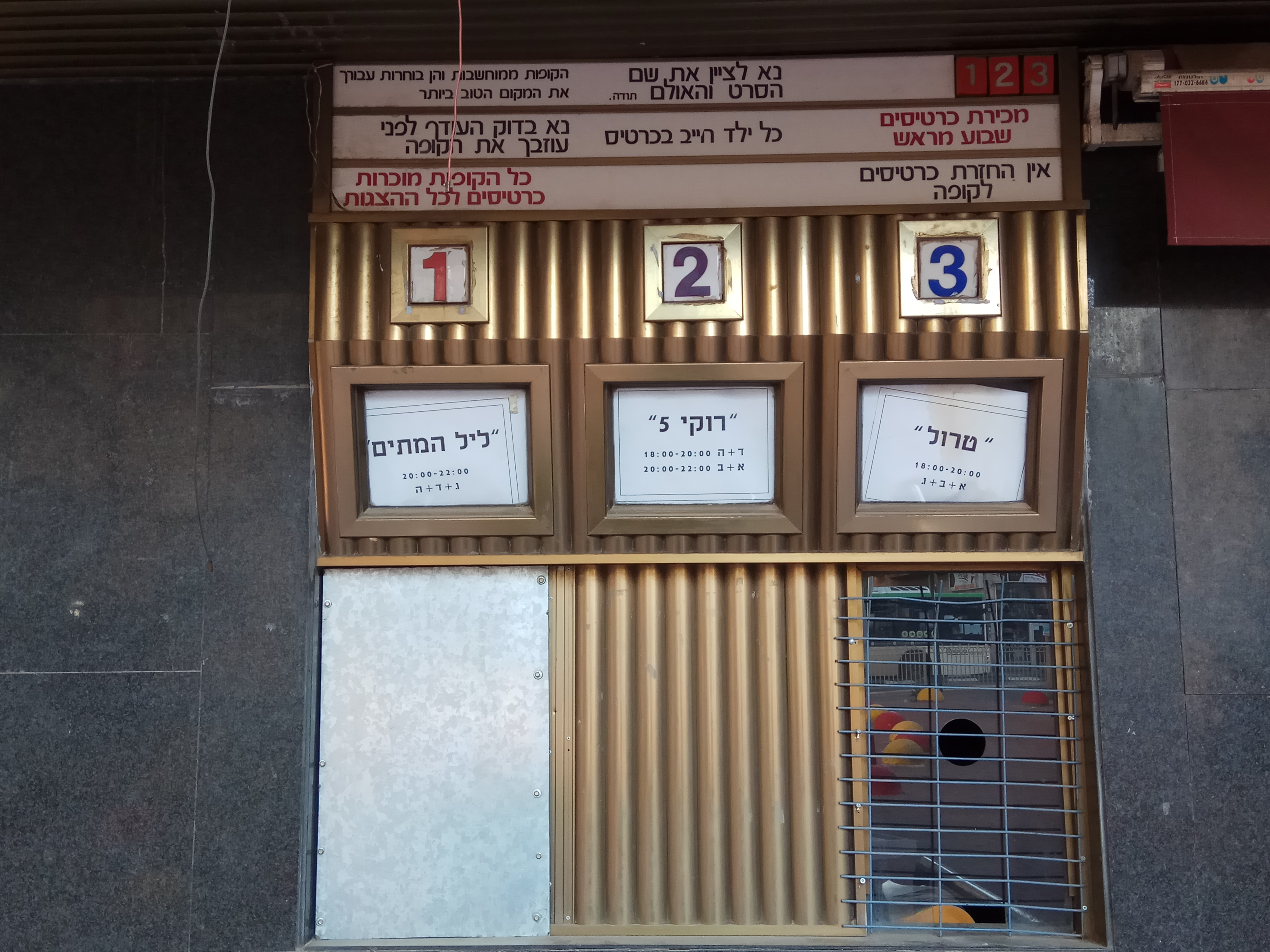 Cinema Heichal in Petach Tikva